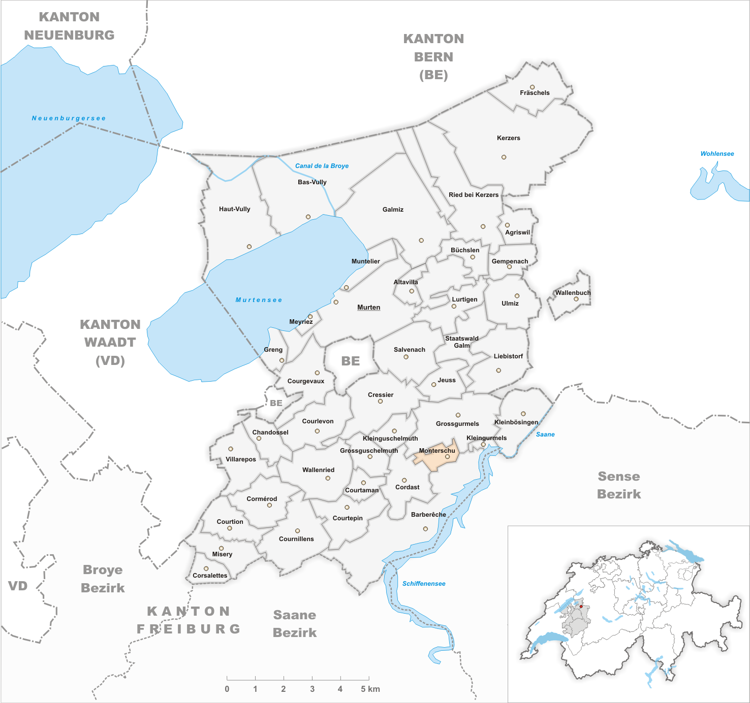 Municipality Monterschu Artist: Tschubby